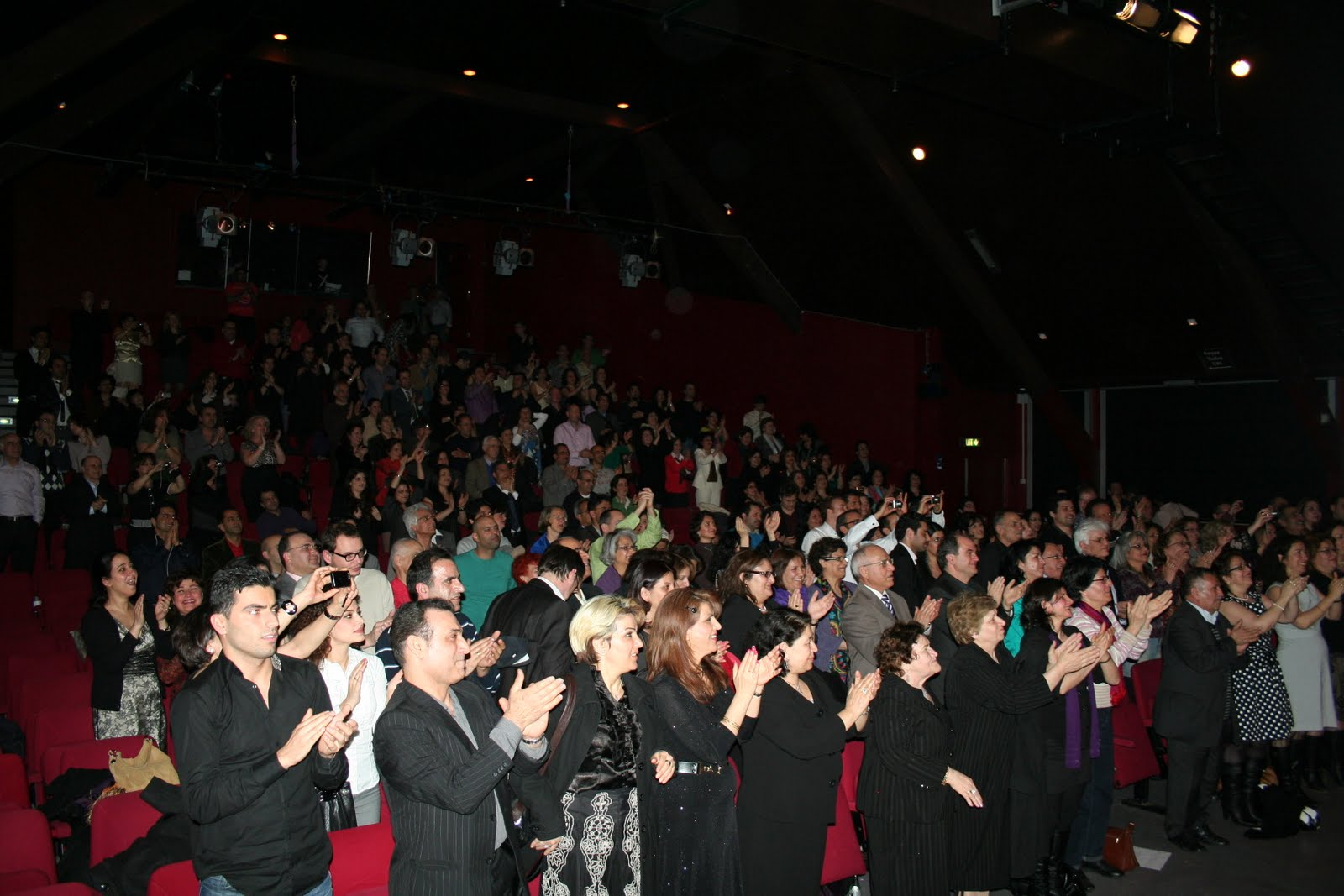 People at Simba Bina Concert in Amsterdam for Persian New Year, March 2010 (Photo by Persian Dutch Network, NL)